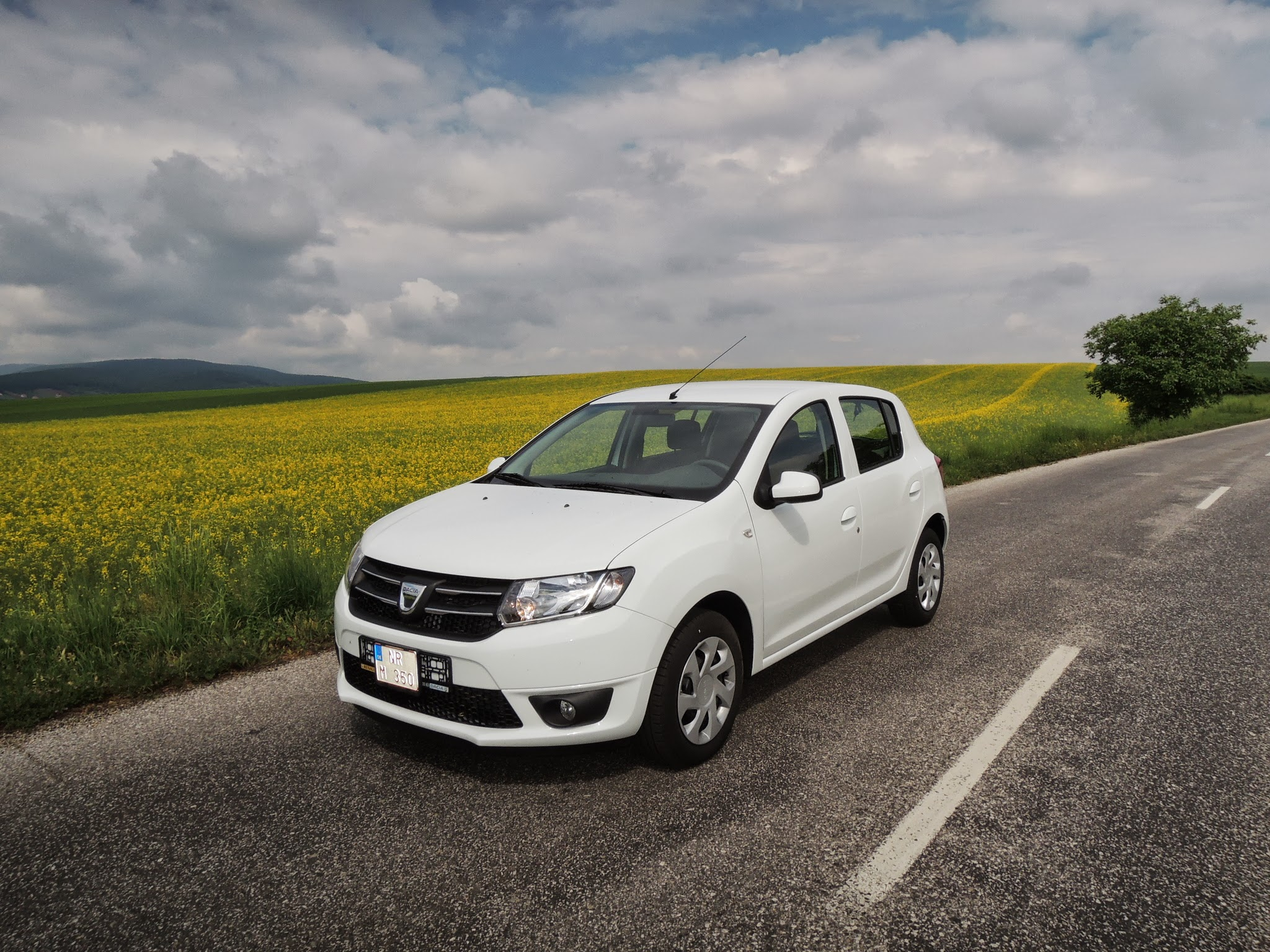 Arctica 1.5 dCi 75 HP/